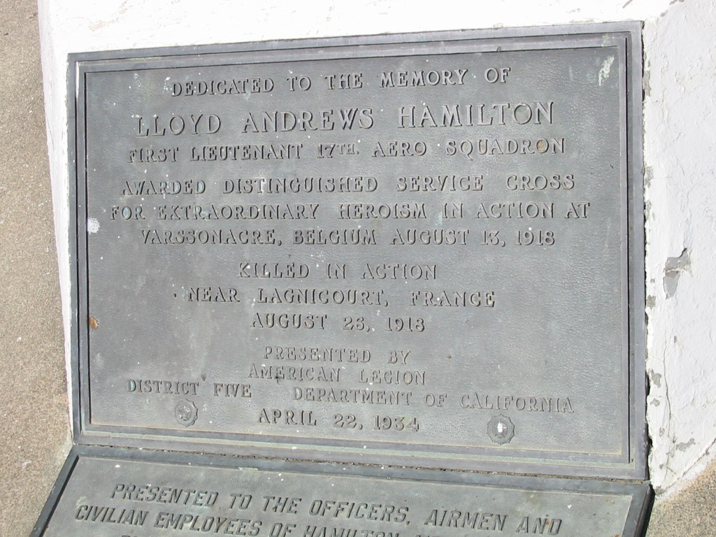 Plaque at Hamilton Air Force Base in Novato, California, describing who WWI ace flier Lloyd Hamilton was.